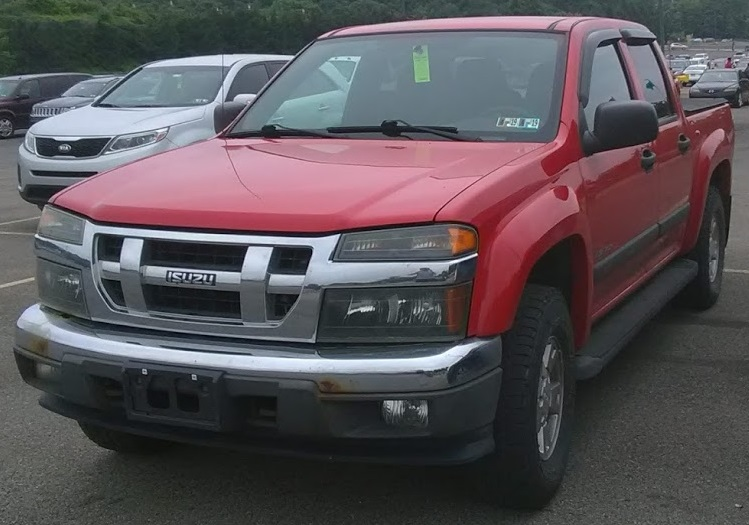 2007 Isuzu i-370 photographed in West Mifflin, Pennsylvania